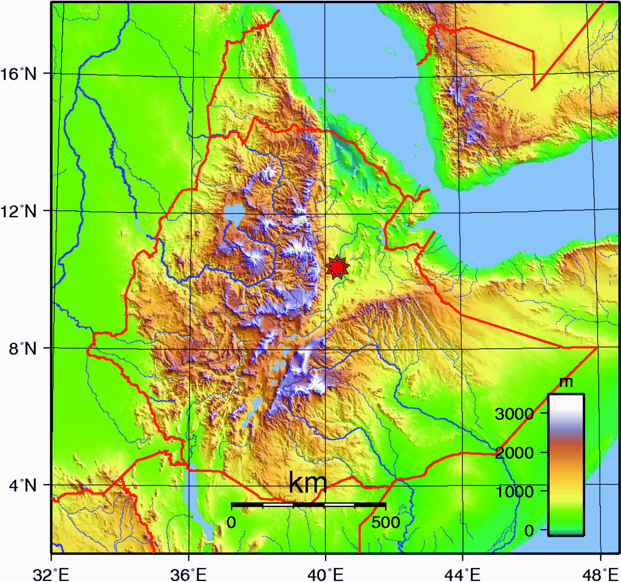 Middle Awash paleoanthropological sites (Aramis, Asa Issie, Alayla, etc.)